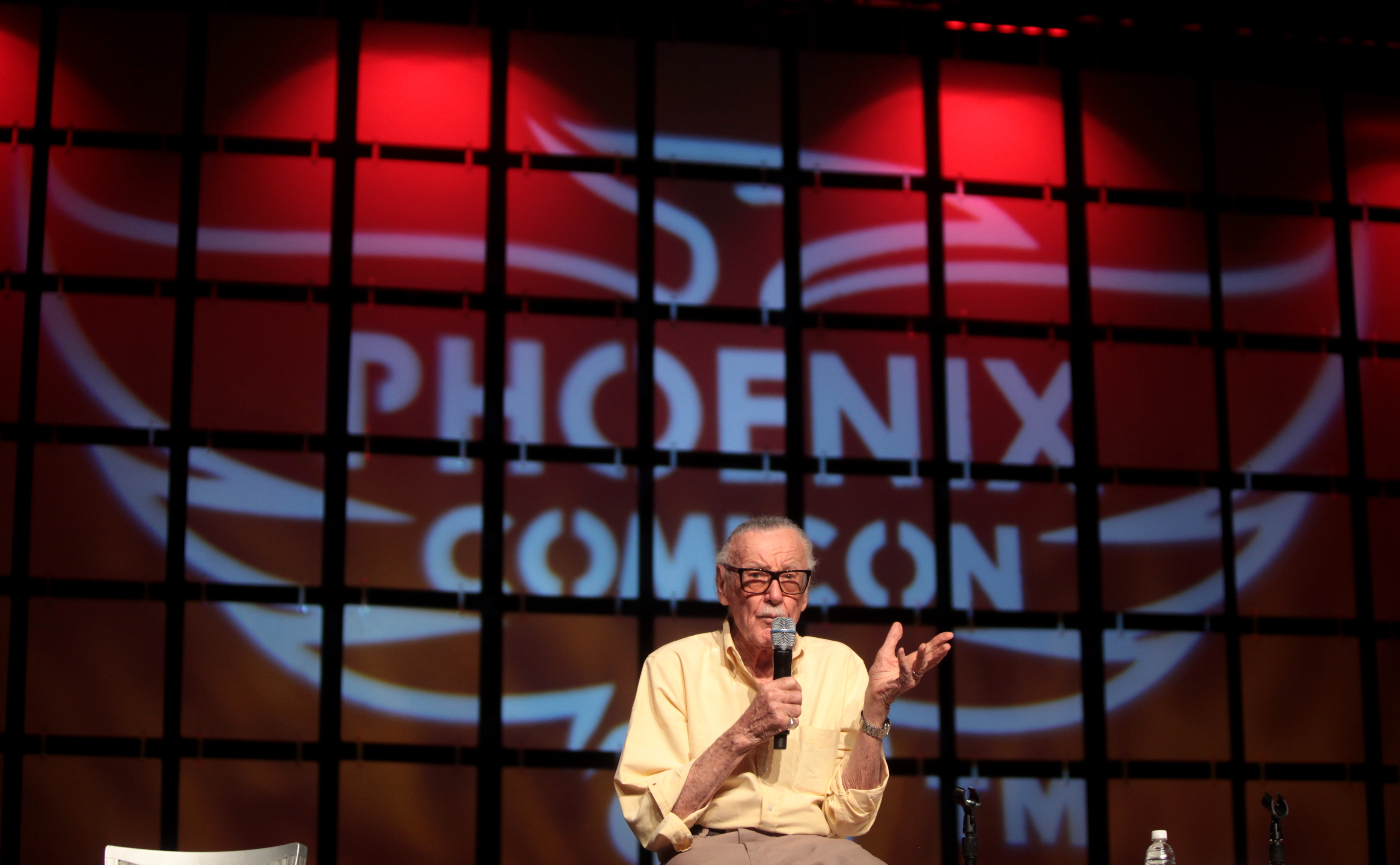 Stan Lee speaking at the 2014 Phoenix Comicon in Phoenix, Arizona.